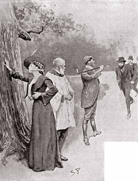 Sherlock Holmes in "The Adventure of the Solitary Cyclist."